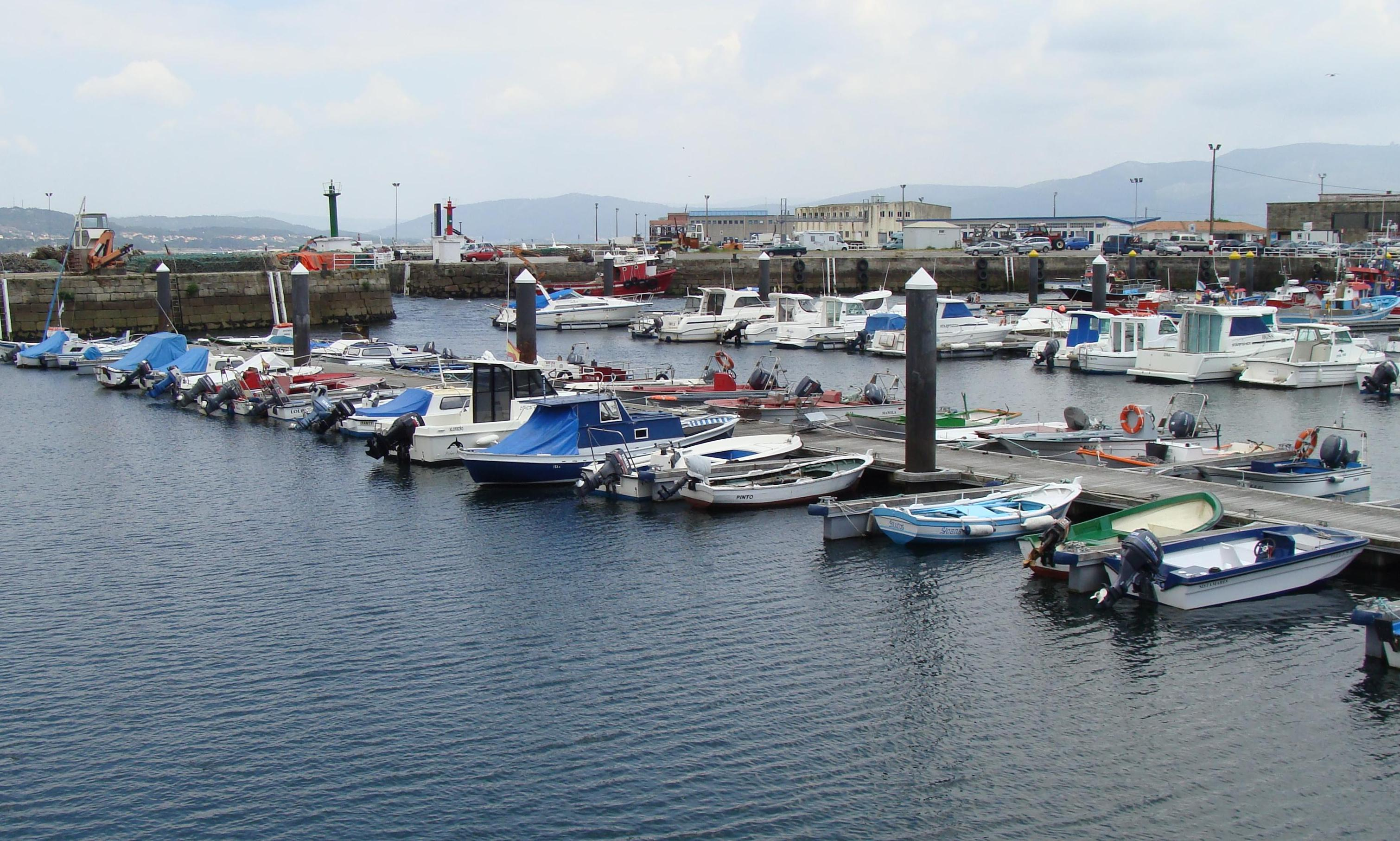 Panorámica del puerto de Muros (provincia de La Coruña, España) en marea baja, como puede verse en las guías del muelle flotante